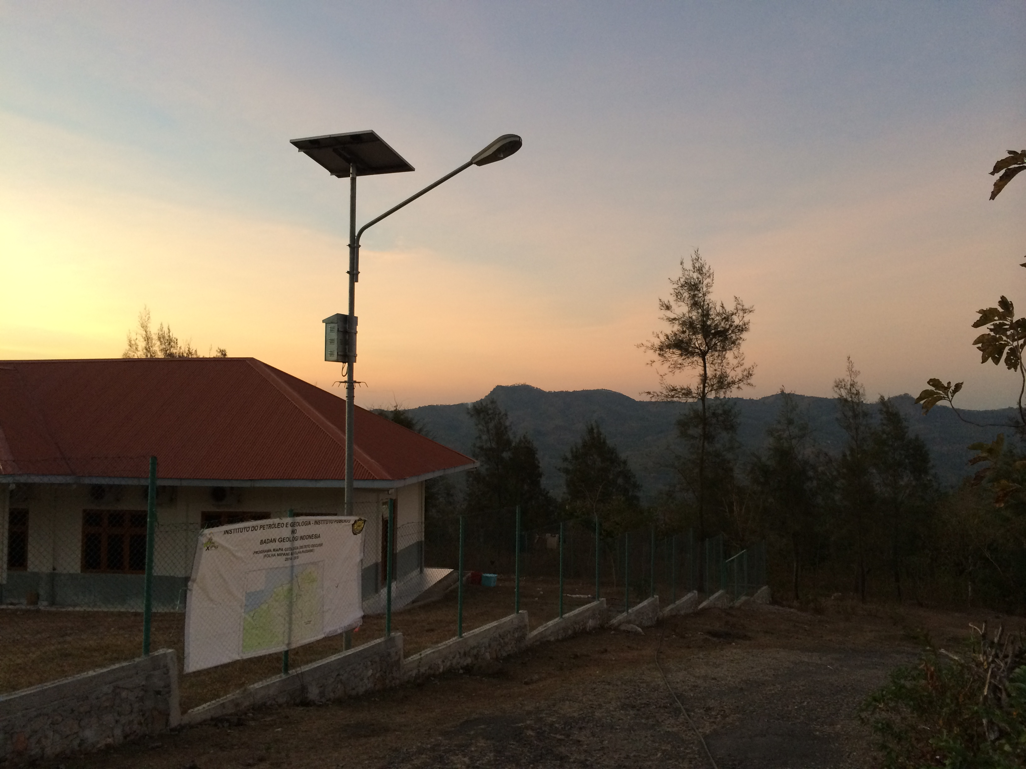 Institute of petrol and geology